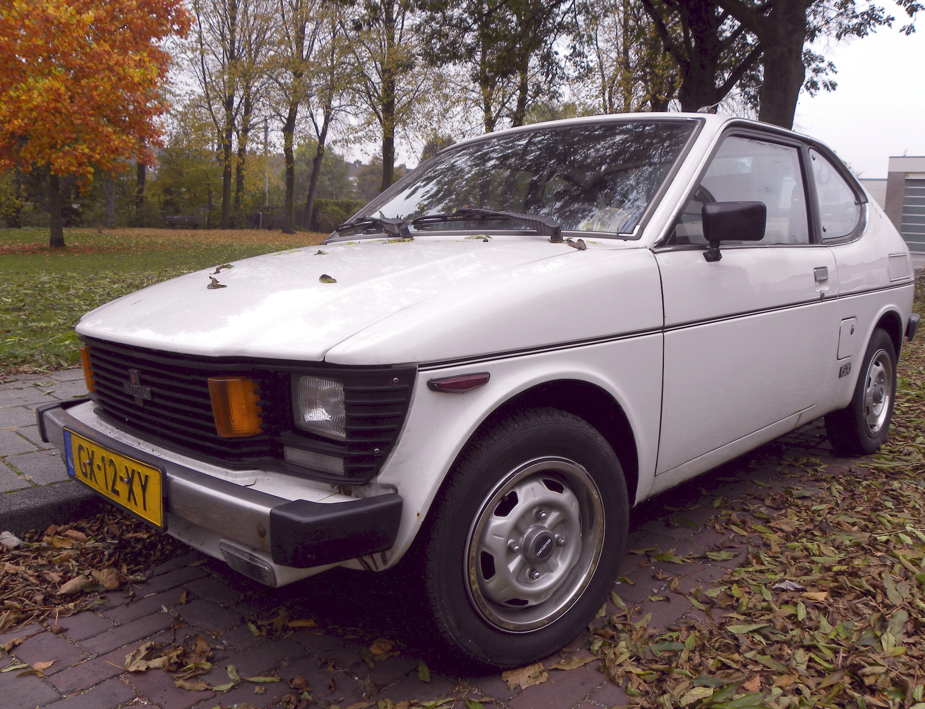 1981 Suzuki SC 100 GX de Luxe in Holland